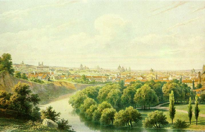 Vilnius Panorama from Bekeshas Hill. 1865. Cromeum lithograph. From P. Batiushkov's Album